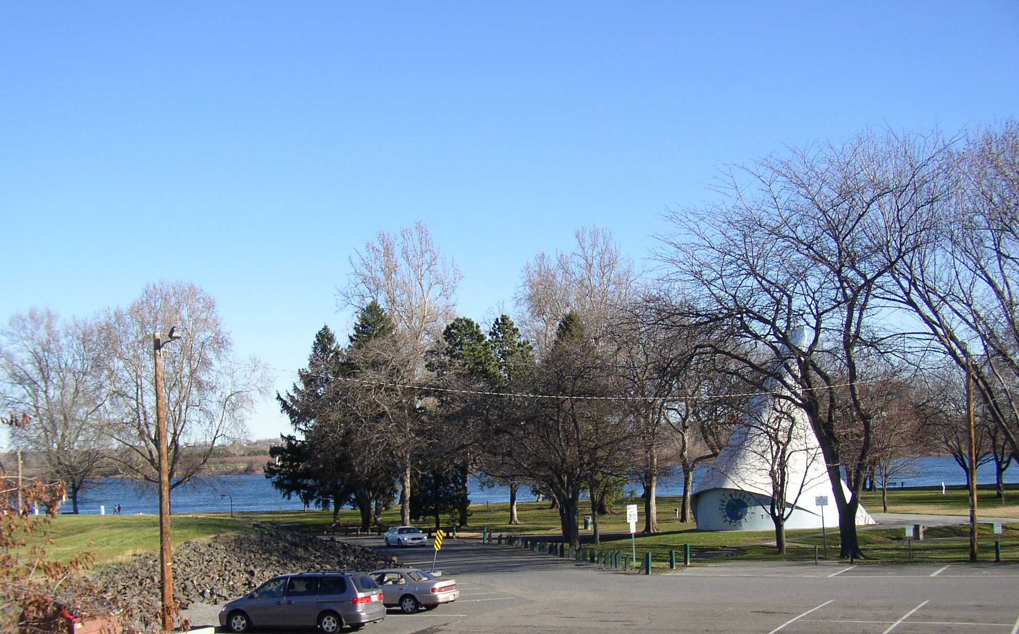 Photos of Richland, Washington State, USA, taken on a lovely 50°F Sunday, January 15, 2006 for the specific purpose of being uploaded to the Wikipedia. All rights are released; they are henceforth & forever in the public domain until the sun does not rise in the east and the rivers no longer run to the sea. This is Howard Amon Park. The Columbia River is in the background.